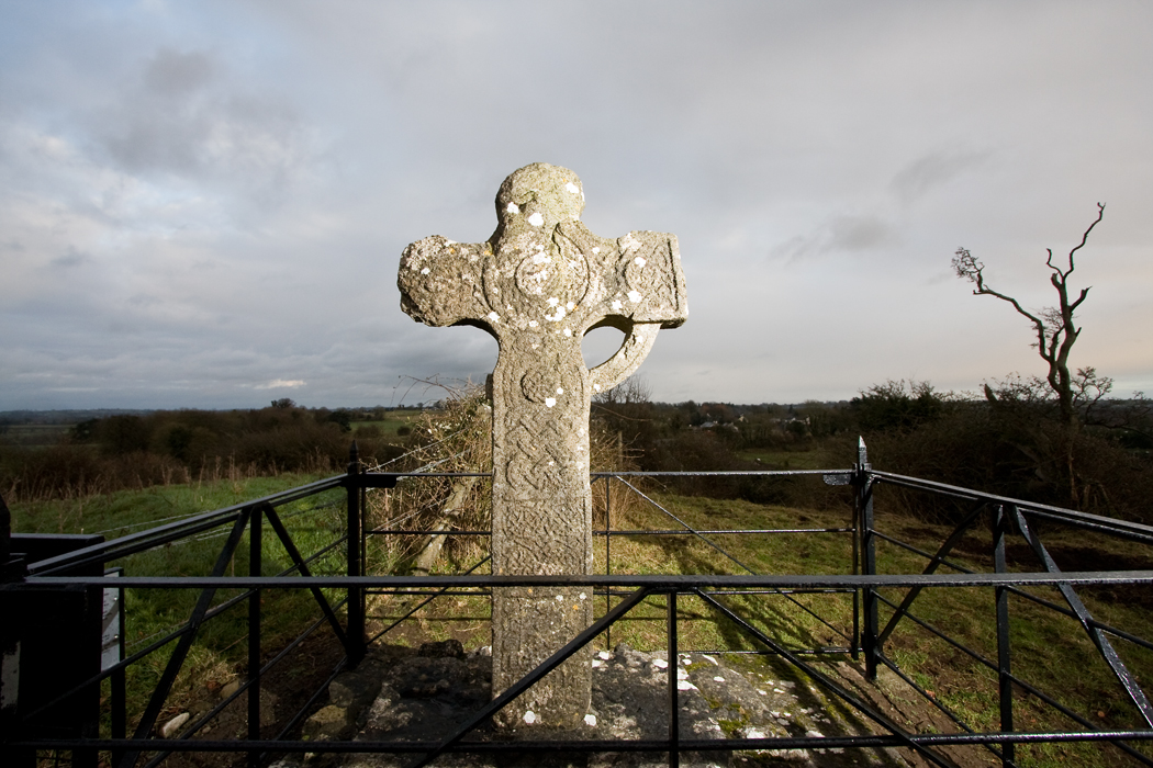 Bealin High Cross, Twyford Demesne, County Westmeath, Ireland, West side view. It was rainy, windy, and the end of a long day traveling with family and extended family. I would like to return to capture the side faces as well. Very beautiful cross. Odd location. Made in 800AD